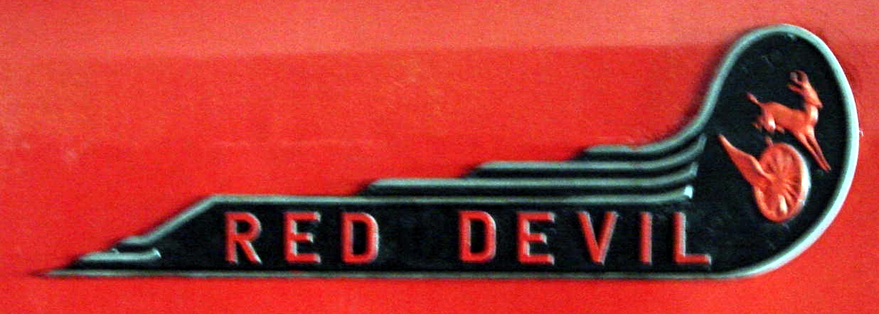 SAR Class 26 3450 (4-8-4) Red Devil wing Builder's Number: Henschel 28769 Rebuilding: Rebuilt from Class 25NC Location: Monument Station, Cape Town